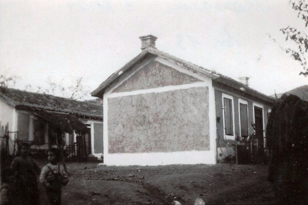 Village Kovanci (Gevgelija Municipality), 1931 This media file is produced by Wikipedian in Residence in Category:Wikipedian in Residence at DARM in 2016.